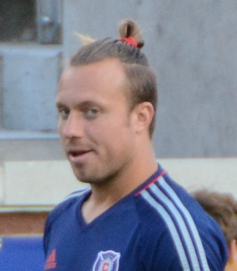 Taken at a U.S. Open Cup match between FC Cincinnati and Chicago Fire SC at Nippert Stadium in Cincinnati, Ohio on June 28, 2017.